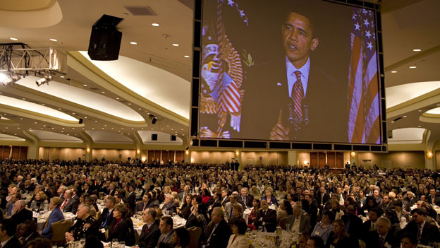 Thousands listen to President Barack Obama's remarks at the National Prayer Breakfast.